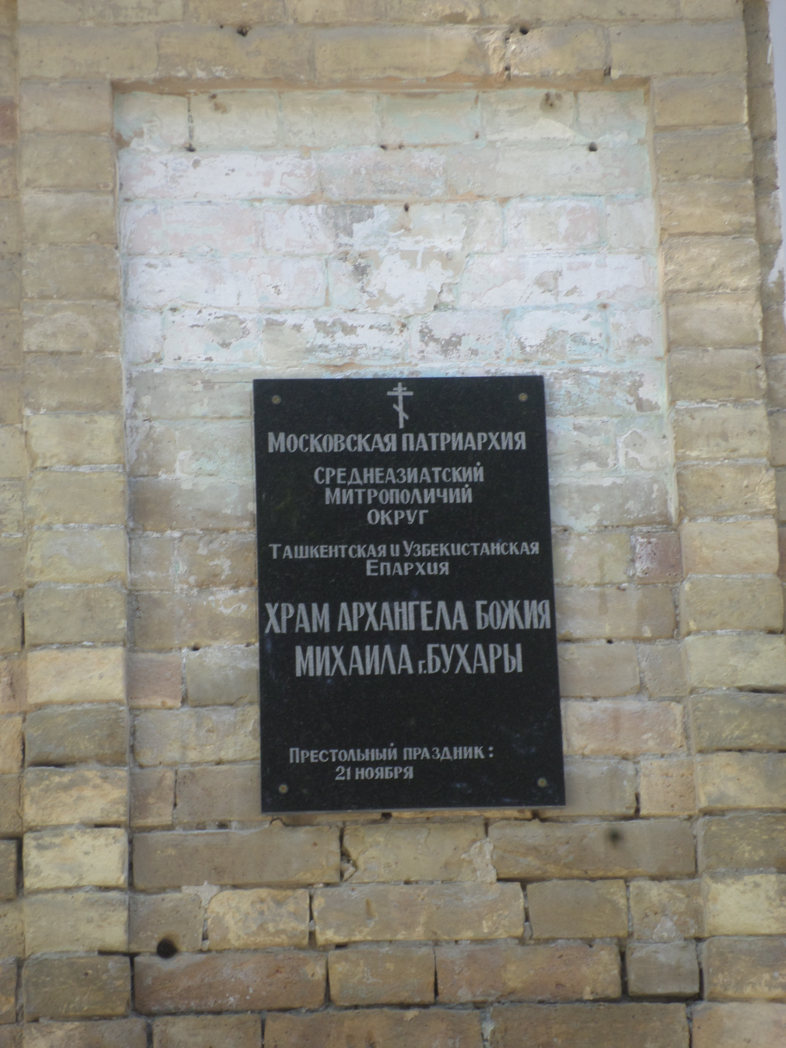 Church of Archangel Michael in Bukhara